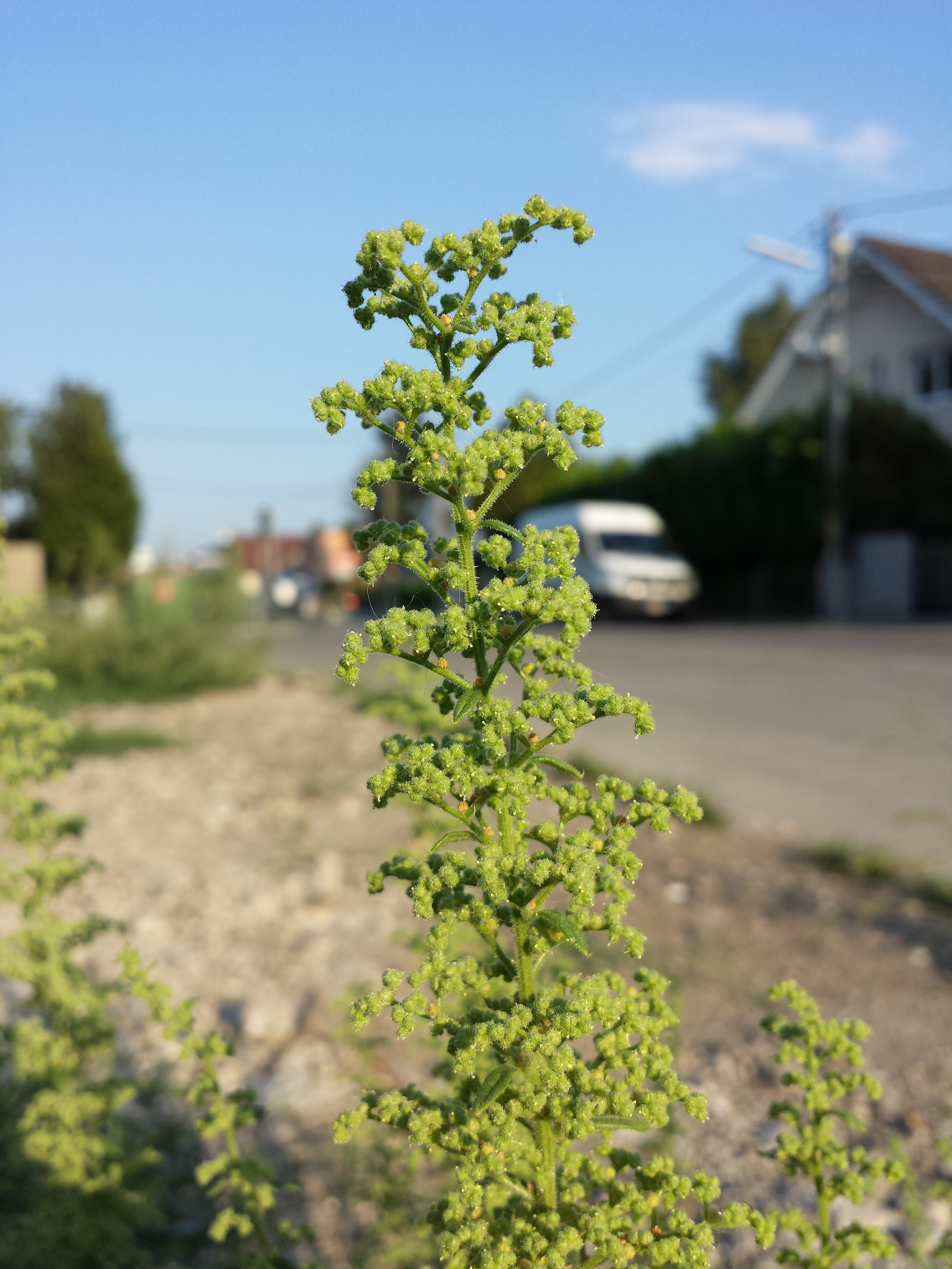 Inflorescence Taxonym: Dysphania botrys ss Fischer et al. EfÖLS 2008 ISBN 978-3-85474-187-9 Location: Bruckhaufen, Vienna-Floridsdorf - ca. 160 m a.s.l. Habitat: stony rudeal area